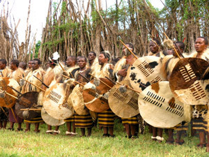 Swaziland warriors at incwala